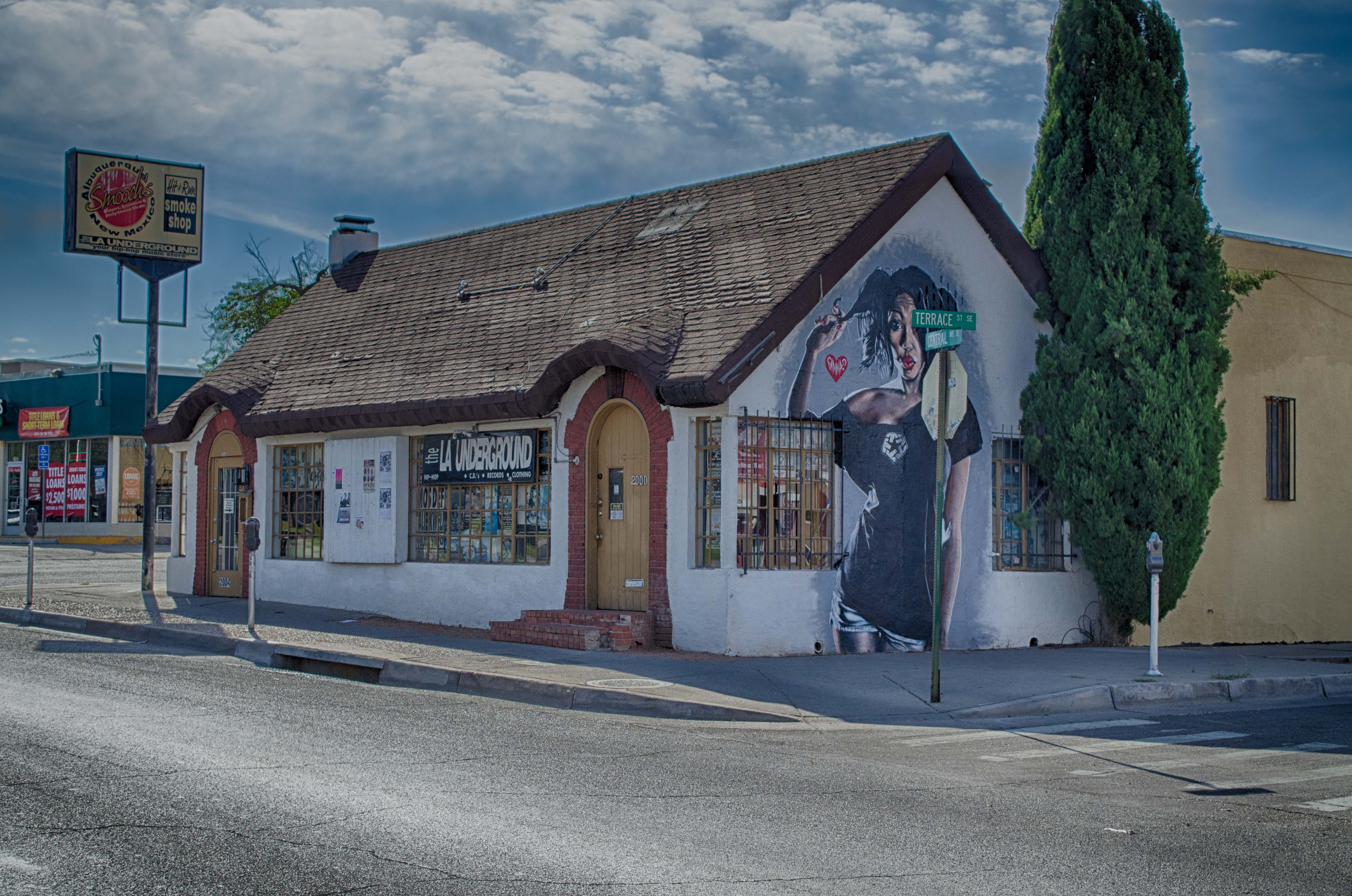 This structure is no longer a bakery. It is a counter culture music, clothing and smoke shop across Central Avenue (Old Route 66) from the University of New Mexico.